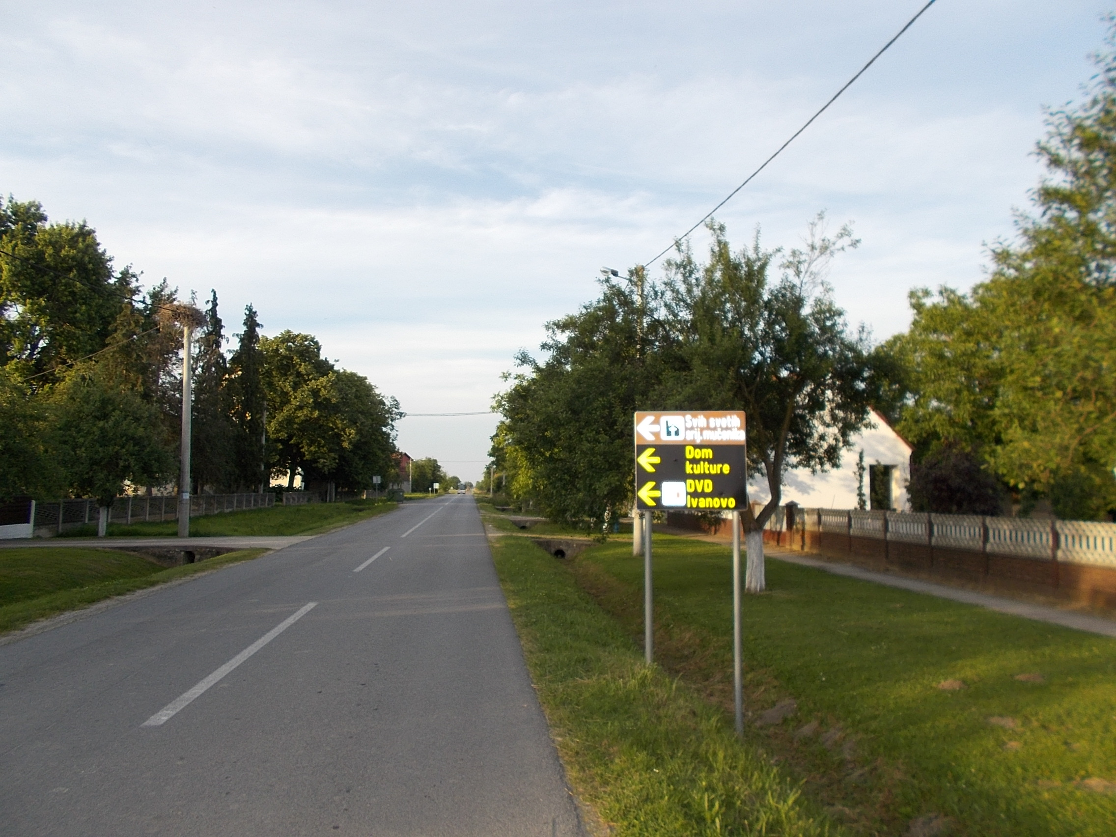 Village of Ivanovo (Gložđe), Viljevo Municipality.